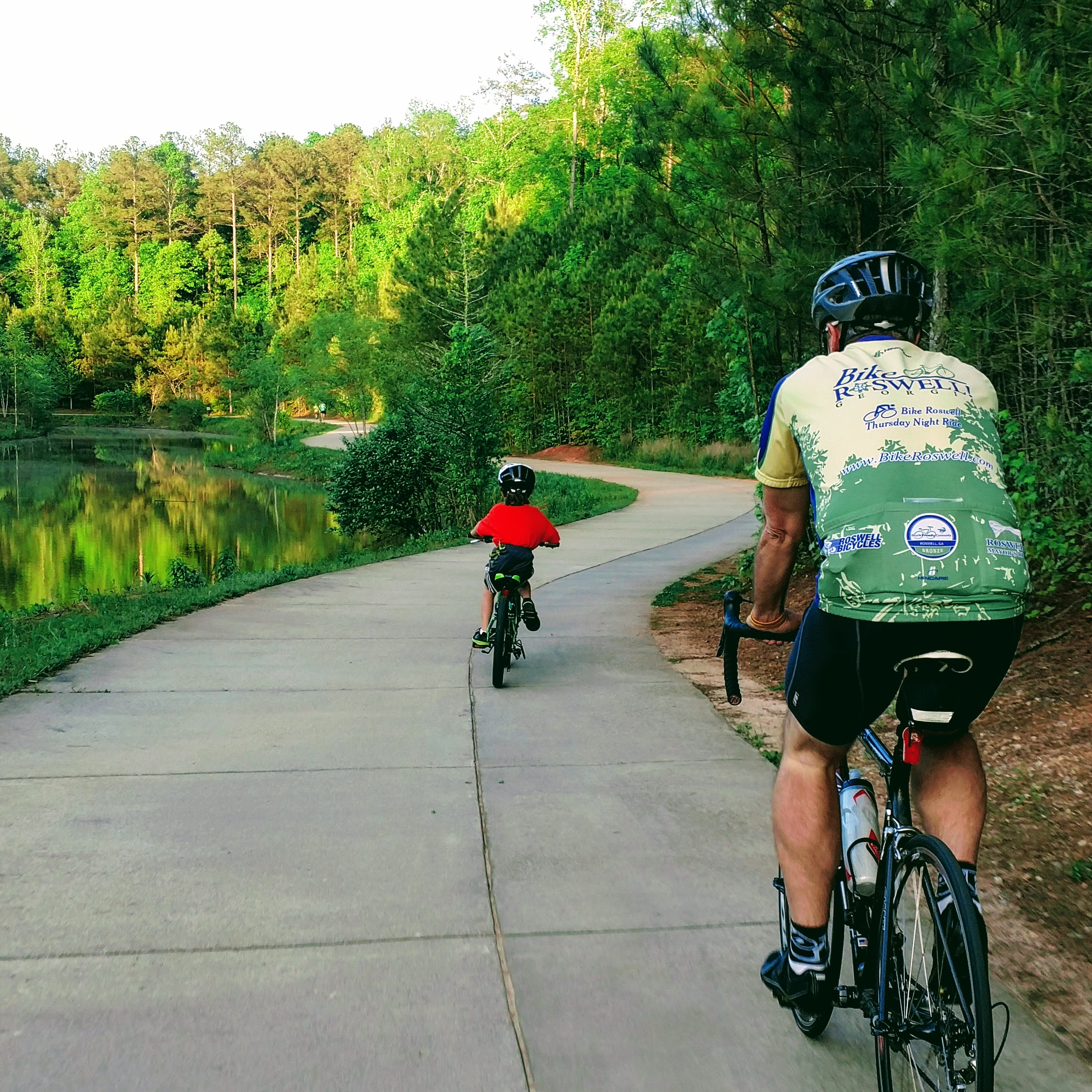 Cyclists enojoy Big Creek Greenway trail in Roswell